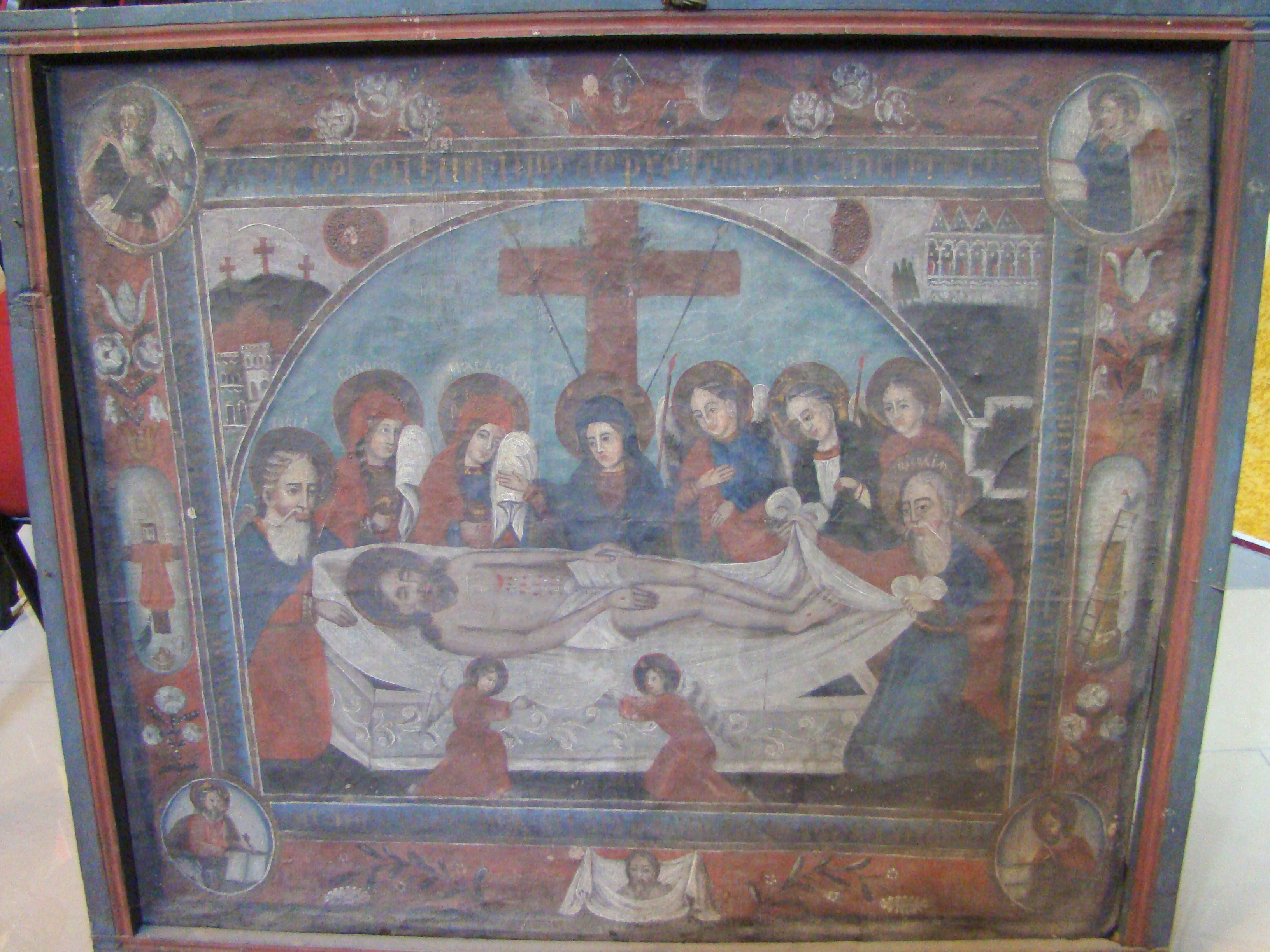 Wooden church in Nețeni, Bistrița-Năsăud county, Romania